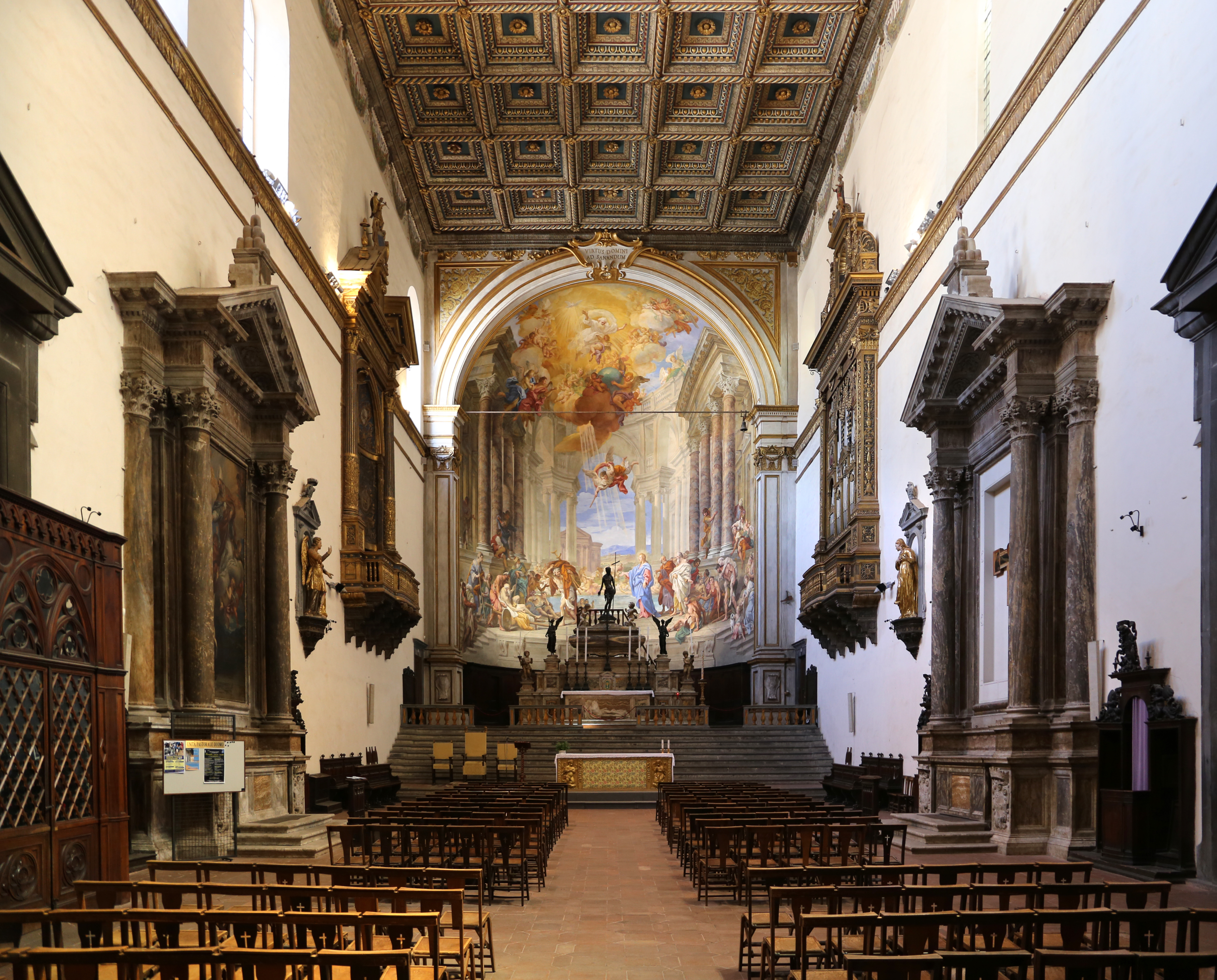 Santissima Annunziata (Siena) - Interior